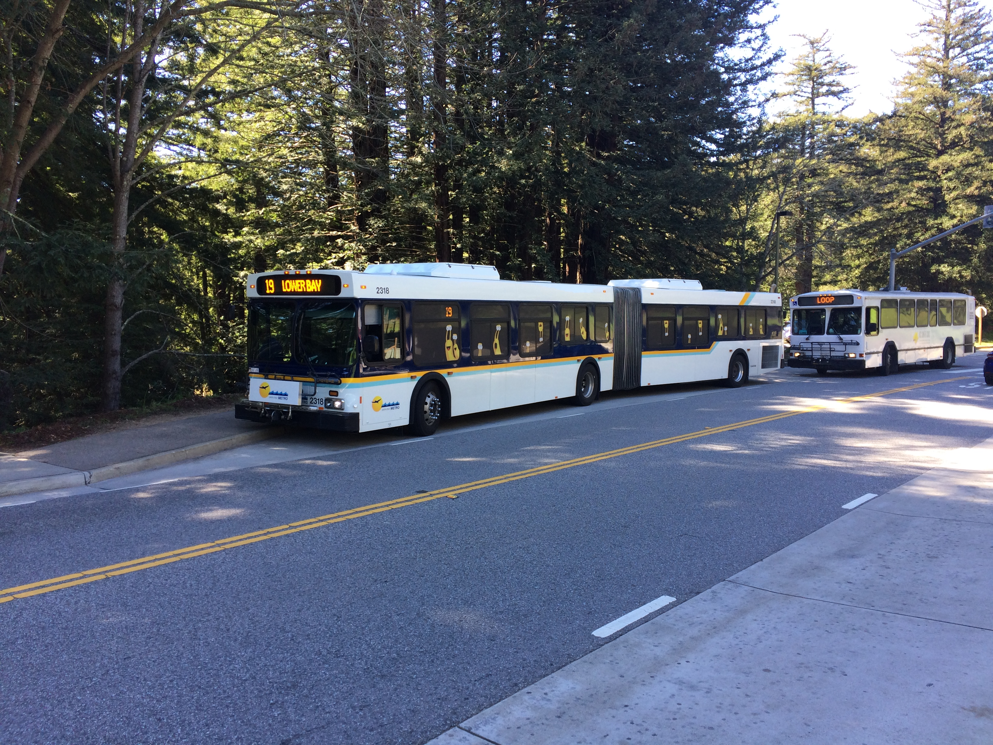 A Santa Cruz METRO D60LF articulated bus on route 19. Behind it is a Loop Bus operated by UCSC.